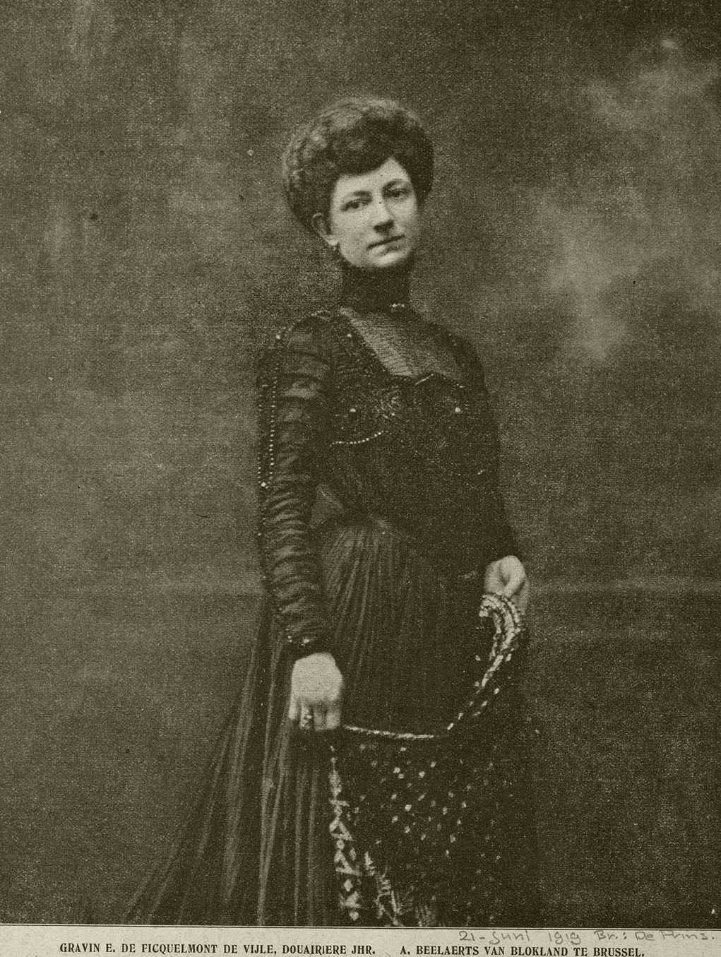 Photograph of comtess E. de Ficquelmont de Vyle (Belgium), 1919